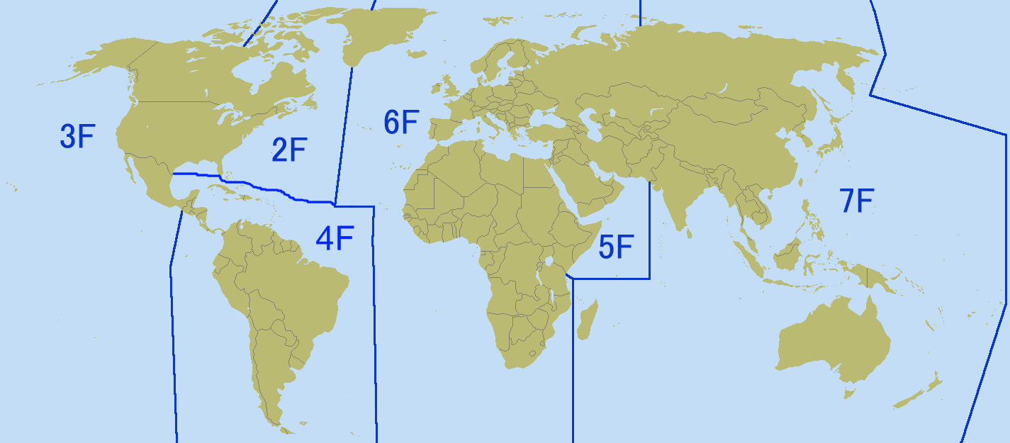 US navy fleets areas of responsibility